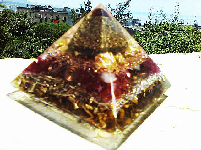 Orgonite device